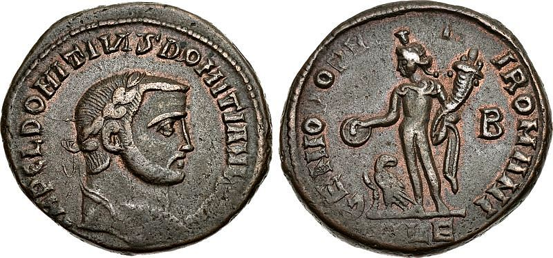 Domitius Domitianus. Usurper, AD 297-298. Æ Nummus (26mm, 9.65 g, 12h). Alexandria mint, 2nd officina. 2nd emission, struck AD 298. Laureate head right / Genius standing left, holding patera and cornucopia; at feet to left, eagle standing left, head right; -/B//ALE. RIC VI 20 var. (wreath in beak of eagle); cf. Lallemand pl. VI, 14-15 (for rev.). From the Ronald J. Hansen Collection.